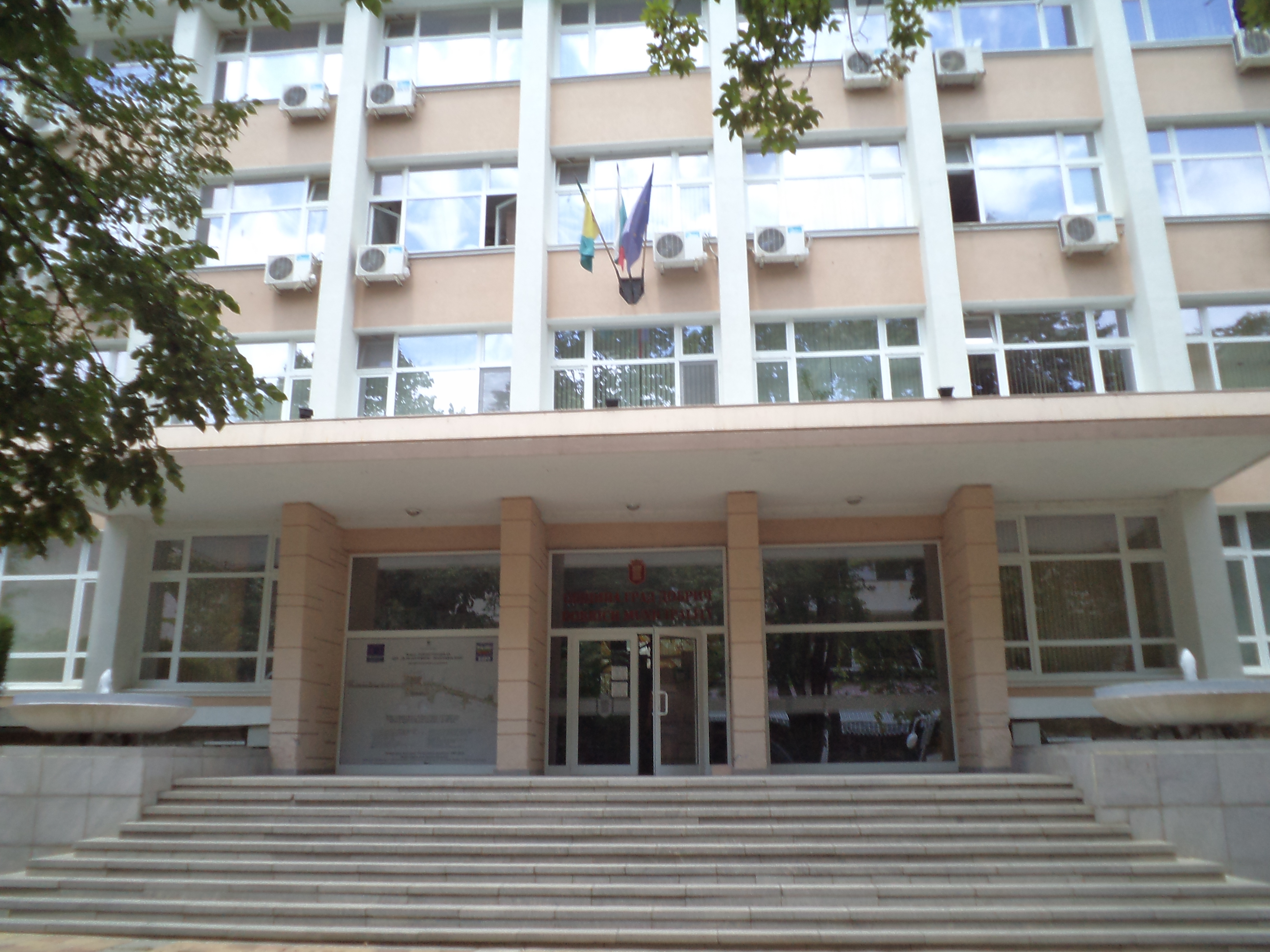 The building of Dobrich Municipality, Bulgaria